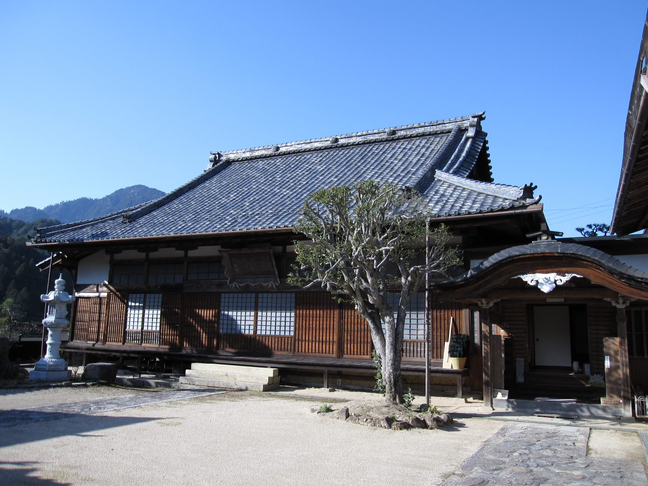 Rurisan Koutokuji Temple in Tsumago-juku (妻籠宿) in Nagano Prefecture, central Japan, in Spring of 2009 with cherry blosoms.